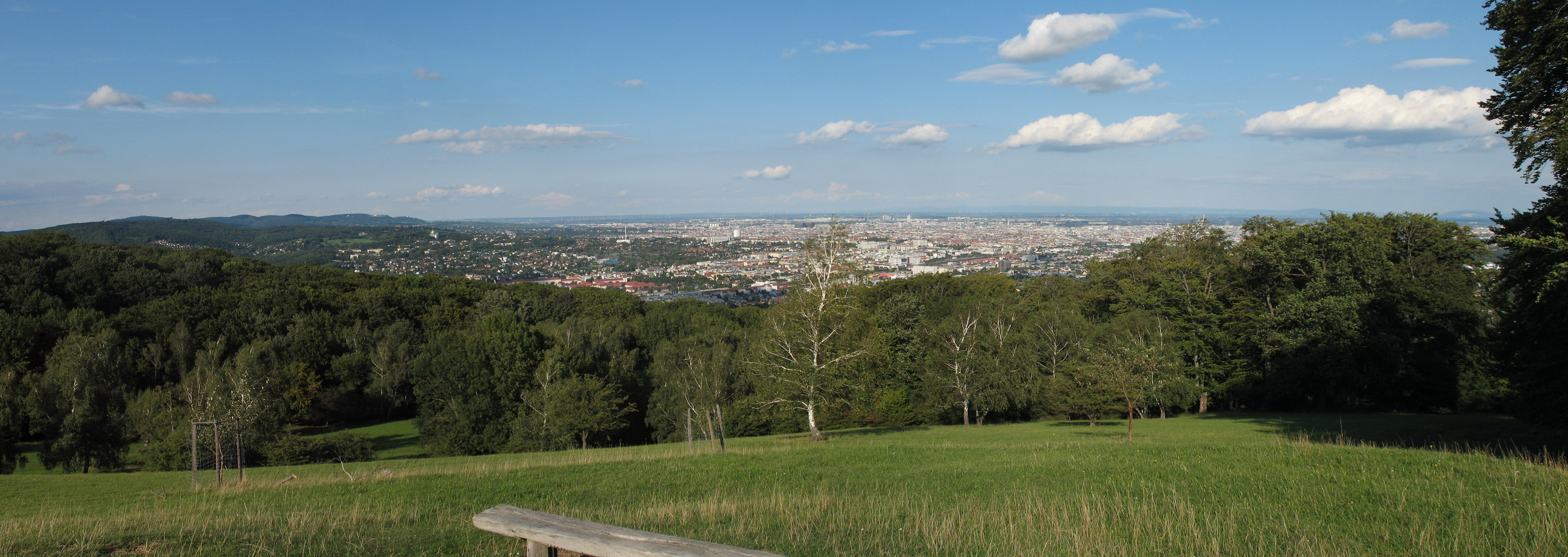 Panoramic view from Lainzer Tiergarten in Vienna, Austria